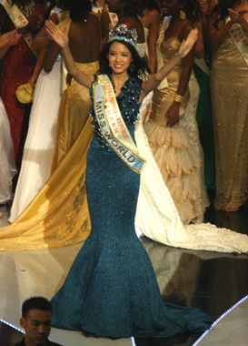 Miss World winner 2007 Miss China Zilin Zhang. Photo taken in Sanya 1/12/2007.